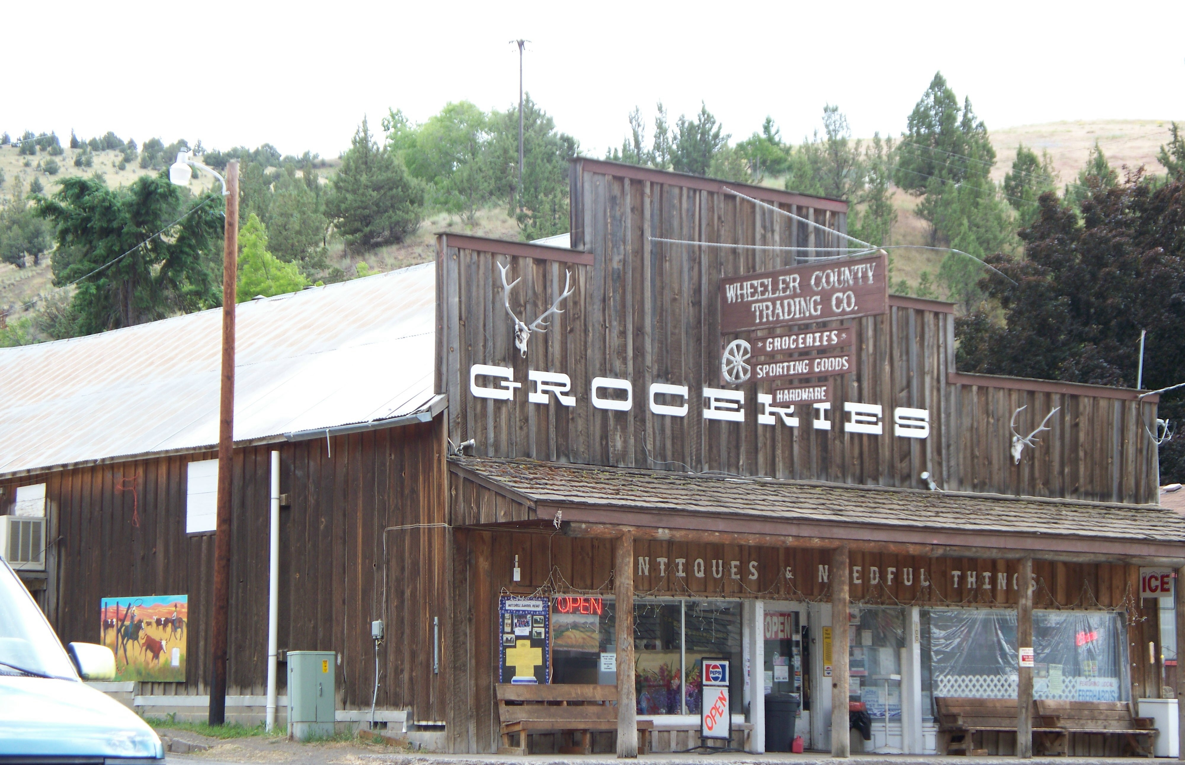 Wheeler County Trading Co., Mitchell, Oregon